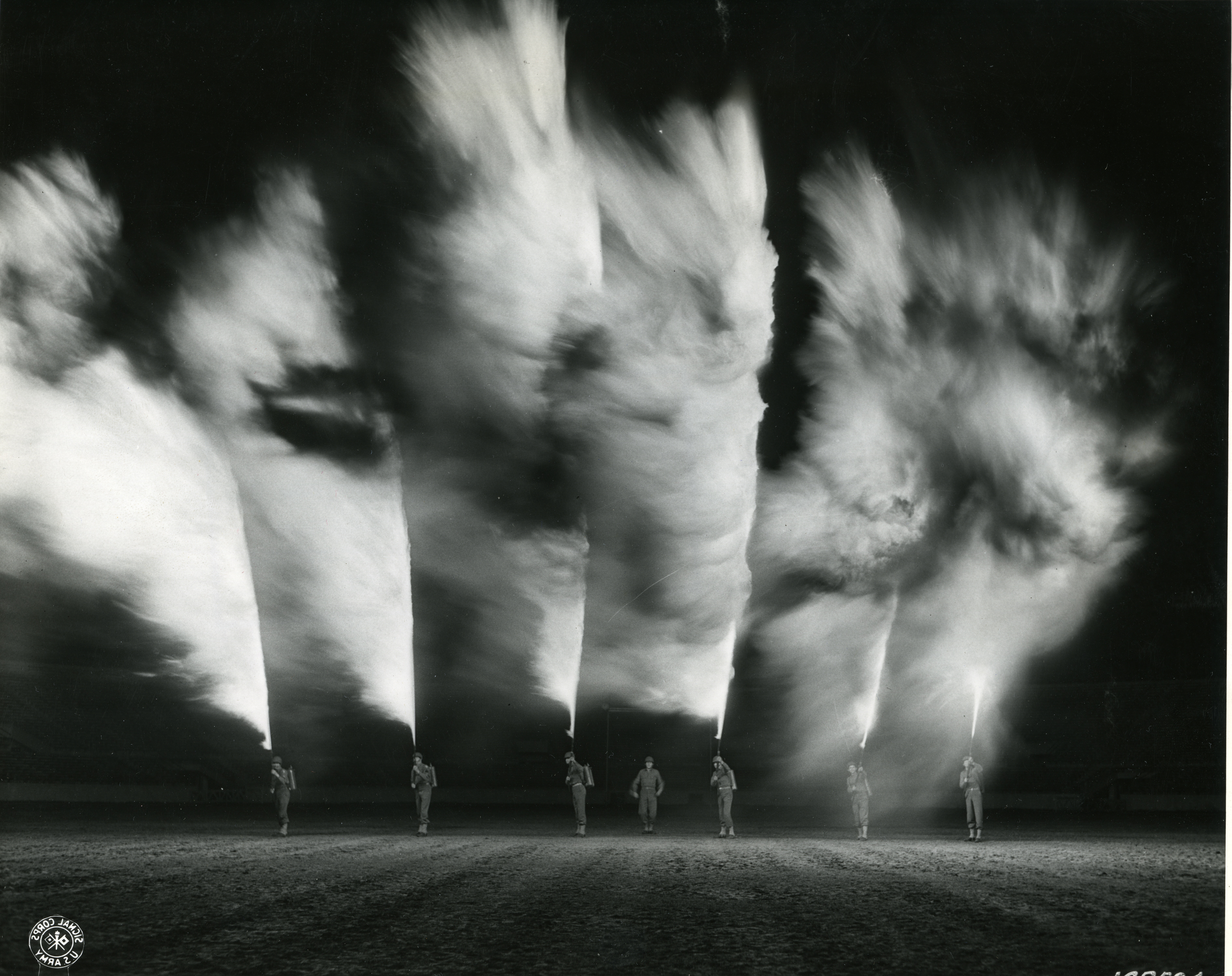 168594 Flame throwers at New Orleans Louisiana in the Army War Show November 27, 1942